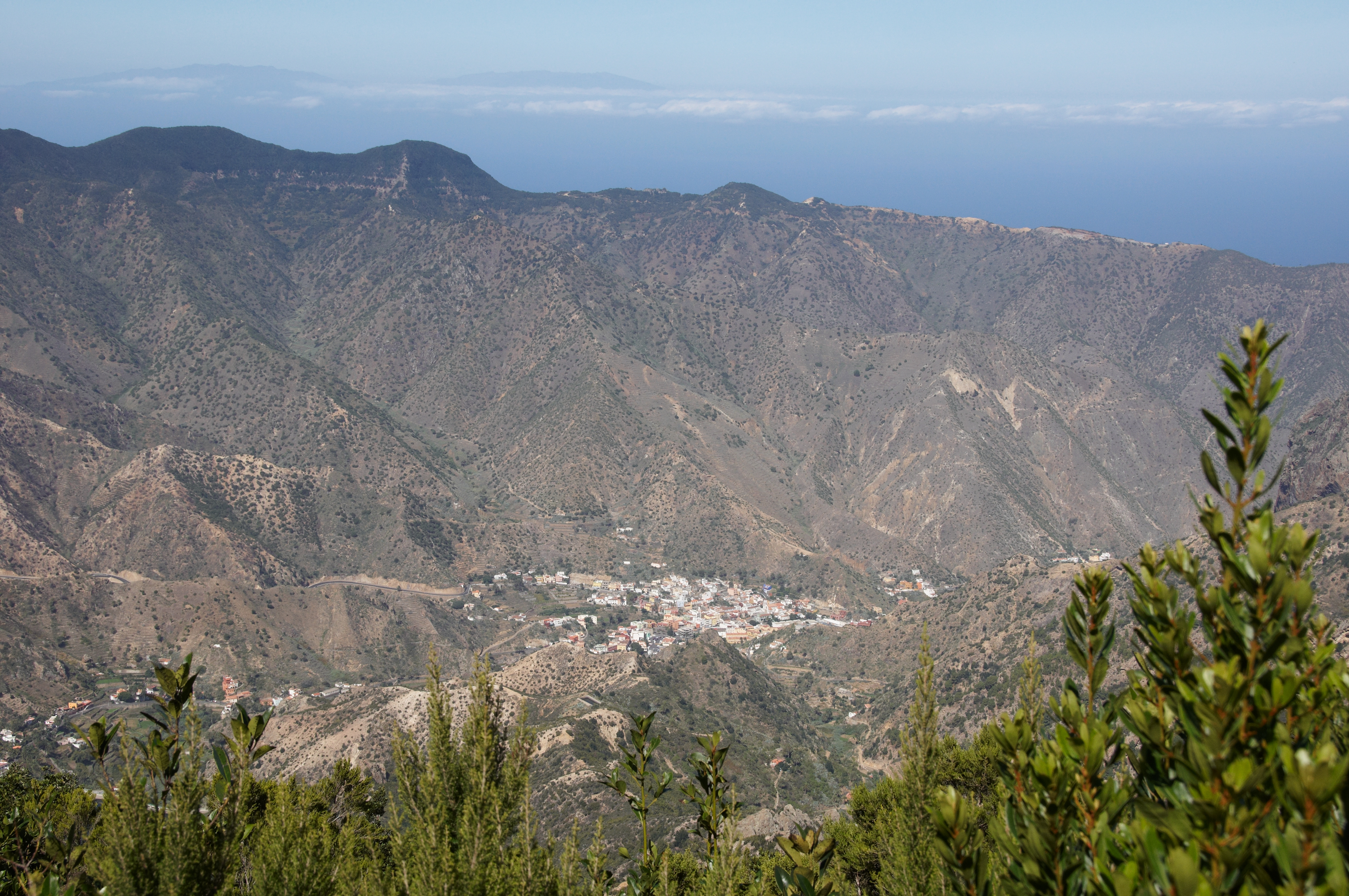 View on Vallehermoso, La Gomera, Spain